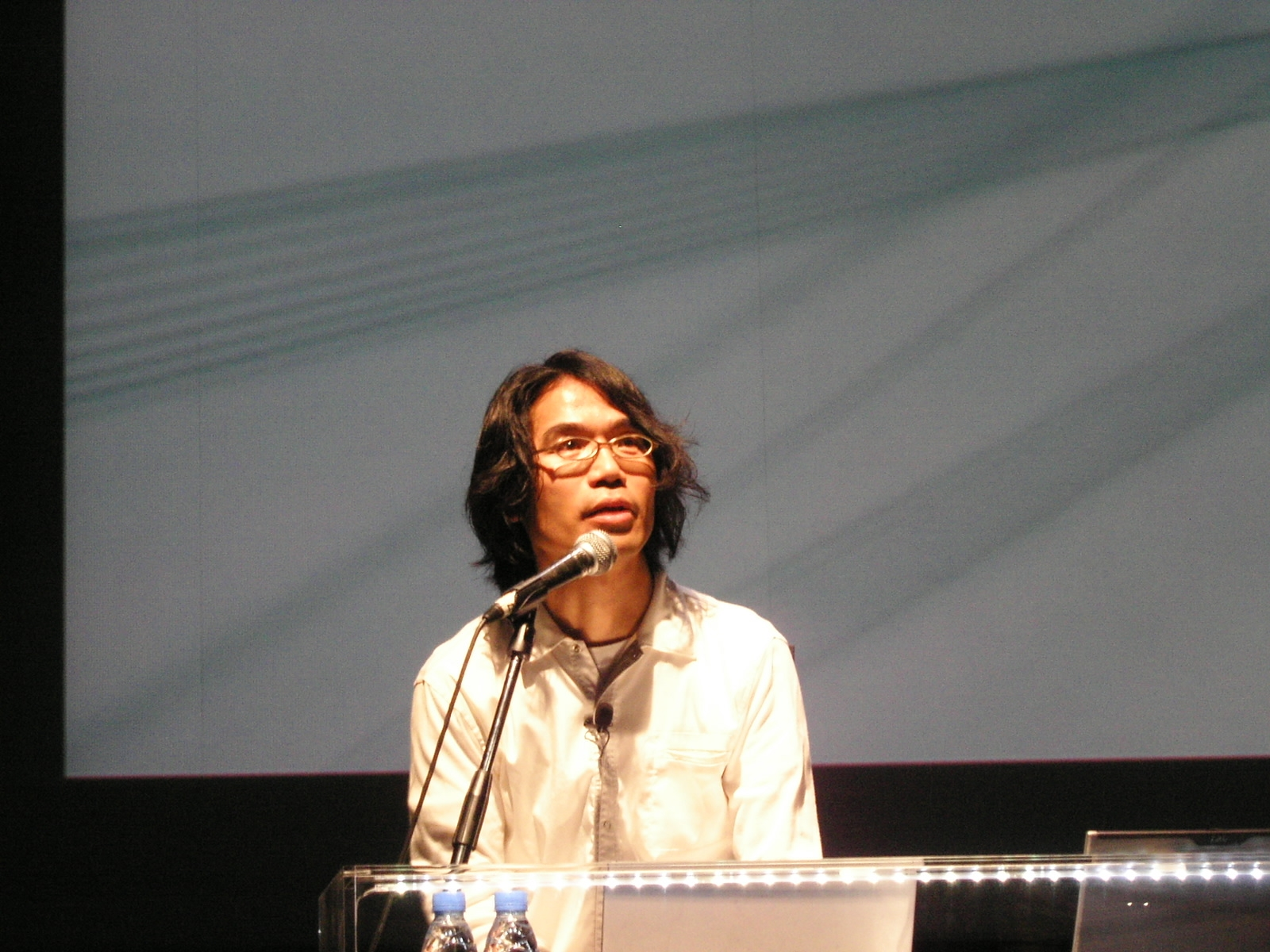 Toshio Iwai on stage at Art Futura 2005 in Barcelona.